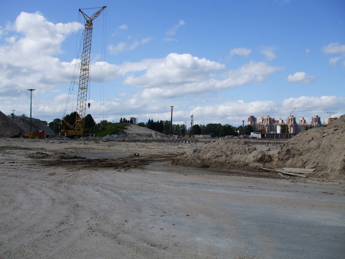 Beginning of building of stadium at western part of Krestovsky island